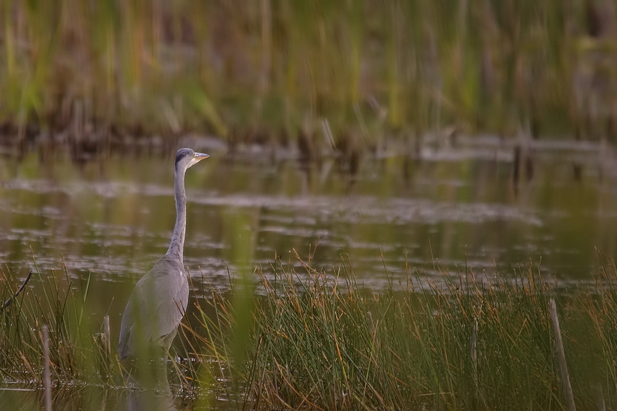 Ardea cinerea (Grey Heron)